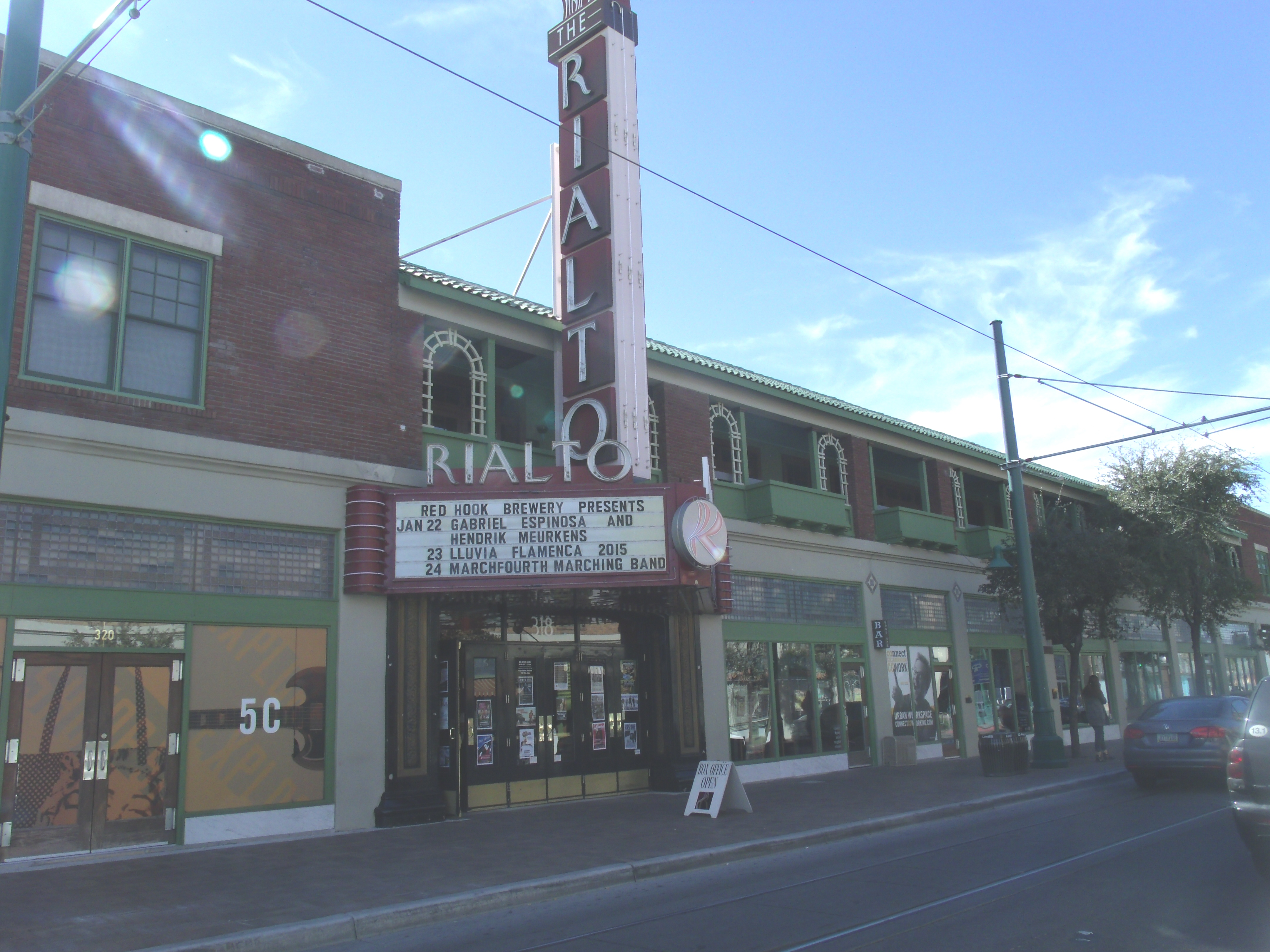 Both the Rialto Building and Rialto Theater were built in 1900 and are located at 300-320 E. Congress St. in Tucson, Az. (The Rialto Theater in 318 E. Congress St.). The first full-length film to play on the Rialto’s screen was The Toll Gate, on August 29th, 1920. The Rialto had vaudeville shows every Wednesday, one of its performers was Ginger Rogers. A star was added to the door of the dressing room to which Rogers had been relegated. Both structures were listed in the National Register of Historic Places in 2003, the building complex ref.: 03000908 and theater ref.: 03000909.